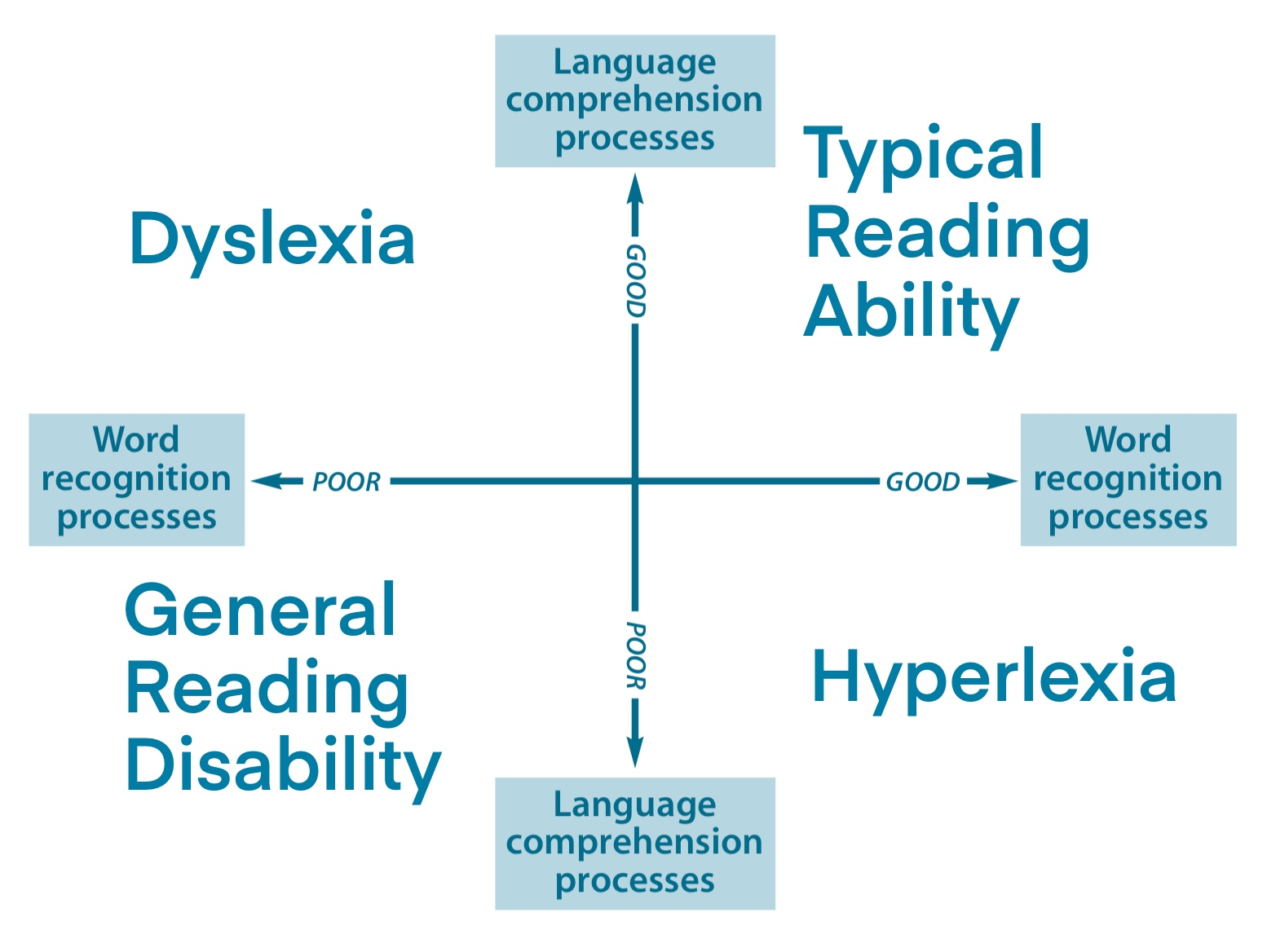 The Simple View of Reading depicted as two intersecting axes, showing four broad categories of developing readers: typical readers; poor readers; dyslexics; and hyperlexics.